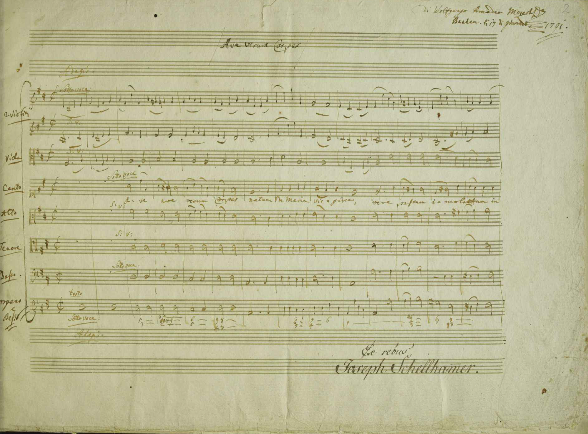 Mozart's autograph of Ave verum corpus motet.